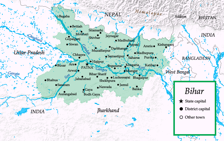 Map of Bihar